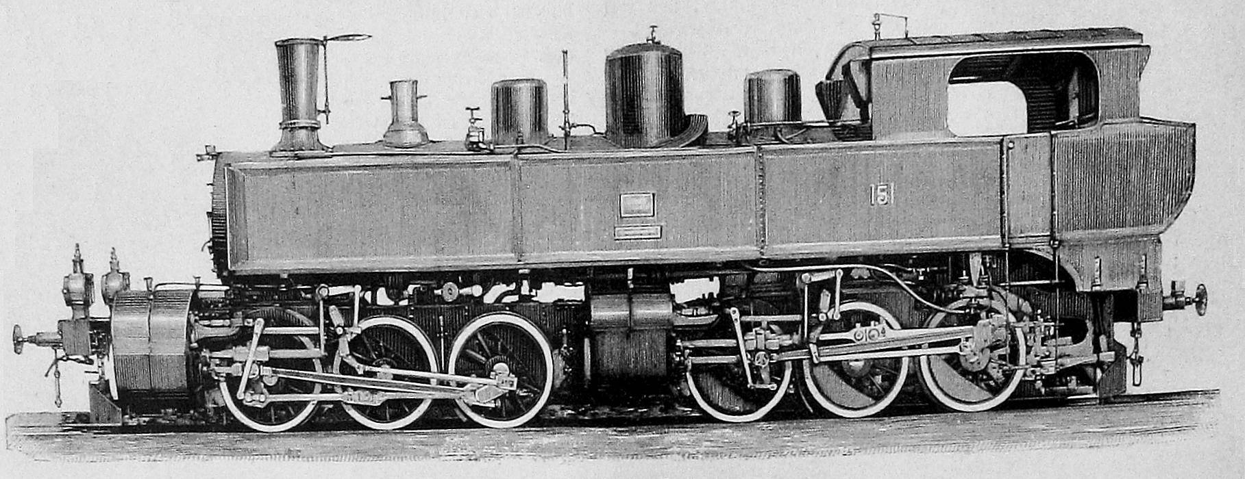 caption: "Die neue Doppel-Lokomotive der Gotthardbahn."